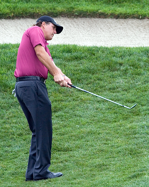 San Diego's favorite son pitches one of only a handful of shots taken around the 18th green during Tuesday's practice round (his only practice round) at the 2008 U.S. Open at Torrey Pines Golf Course in San Diego, CA.